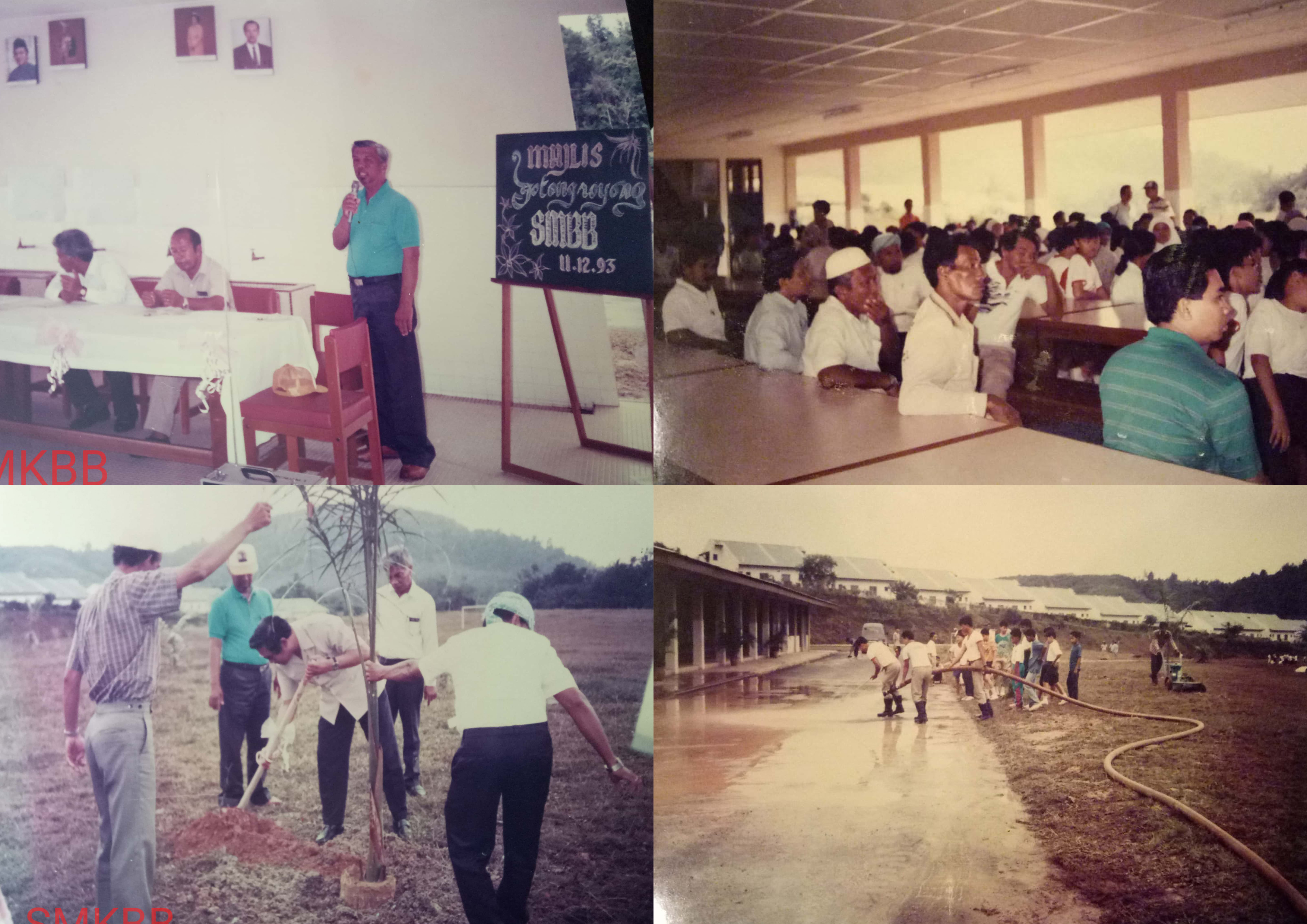 Majlis Gotong-Royong 1993